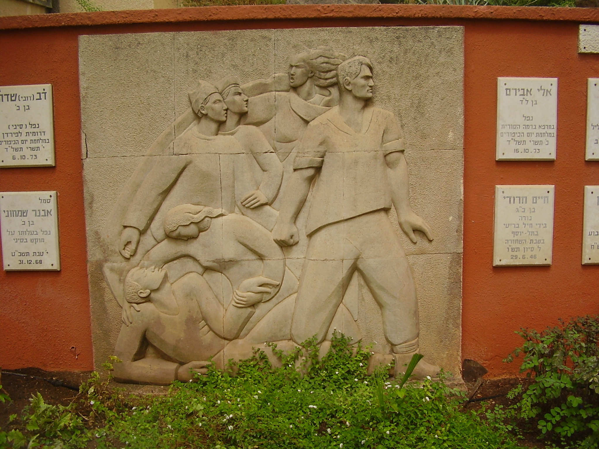 relief by aharon priver in kibbutz tel - yosef